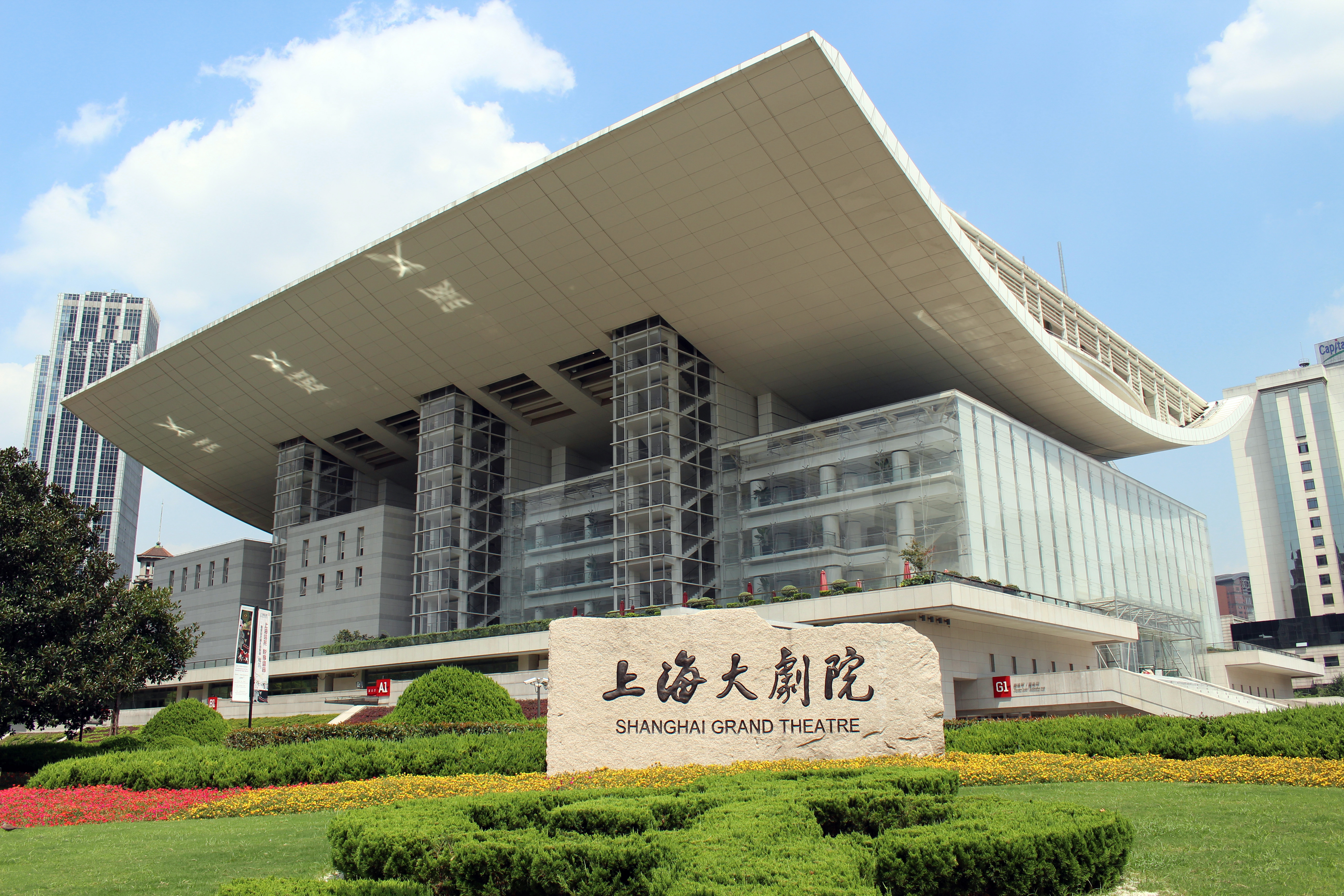 The Shanghai Grand Theatre in Shanghai, People's Republic of China.